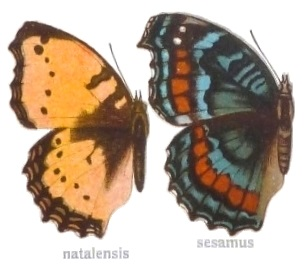 Seasonal color variations of the African butterfly Precis octavia. On the left we can see the wet season form (called natalensis here); on the right we can see the dry season form (called sesamus here). They are so different in staining and patterning that early entomologists have termed them differently, as in this secondary source: Smart, Paul. (1975): The Illustrated Encyclopedia of the Butterfly World: In Color, page 68.; Salamander Books, London. The secondary source does not employ the same words as above.